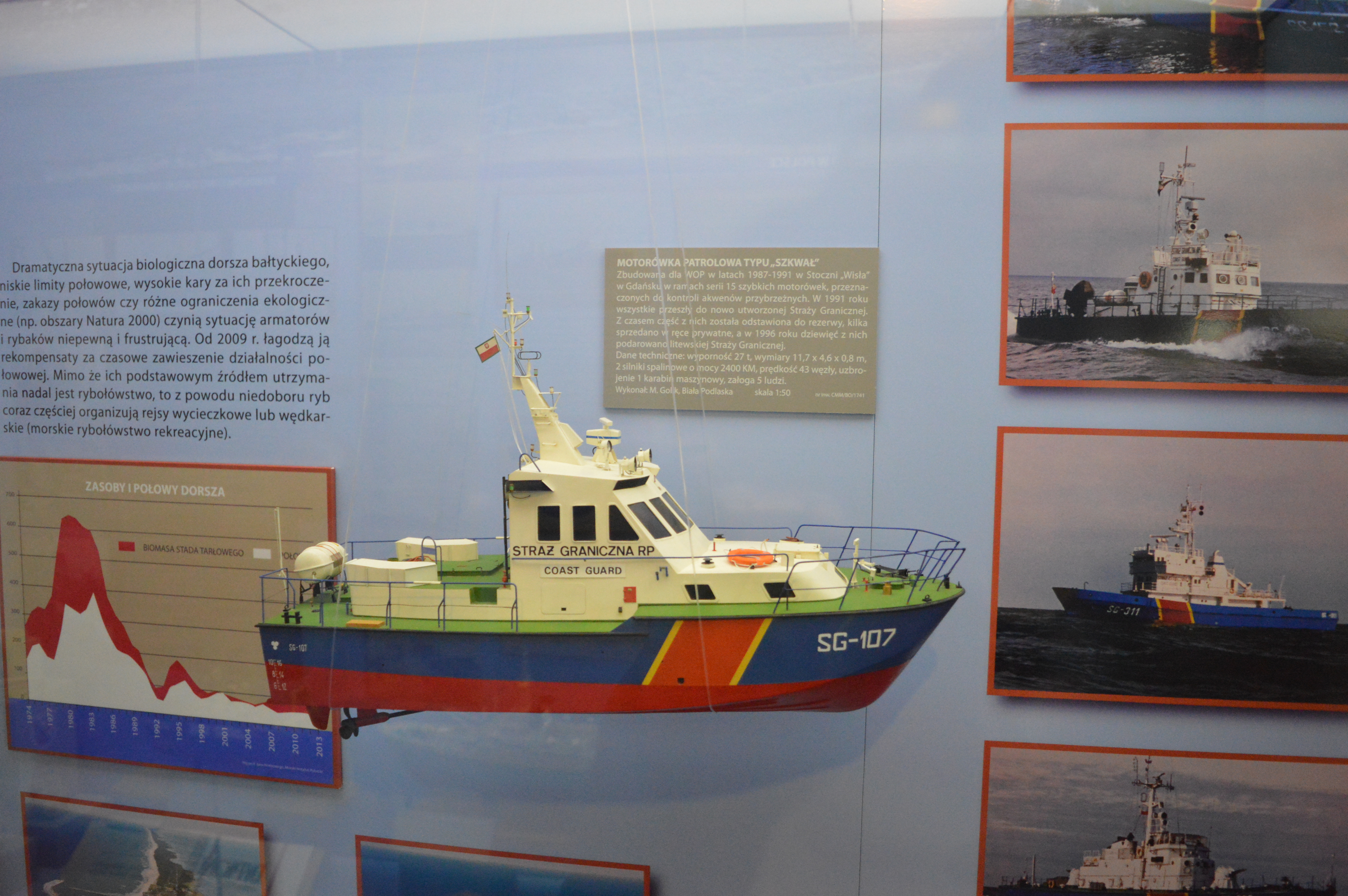 Model of patrol boat "Szkwał" in Fishery Museum in Hel, Poland. Such boats were built in 1987-1991 for Polish Border Guard.